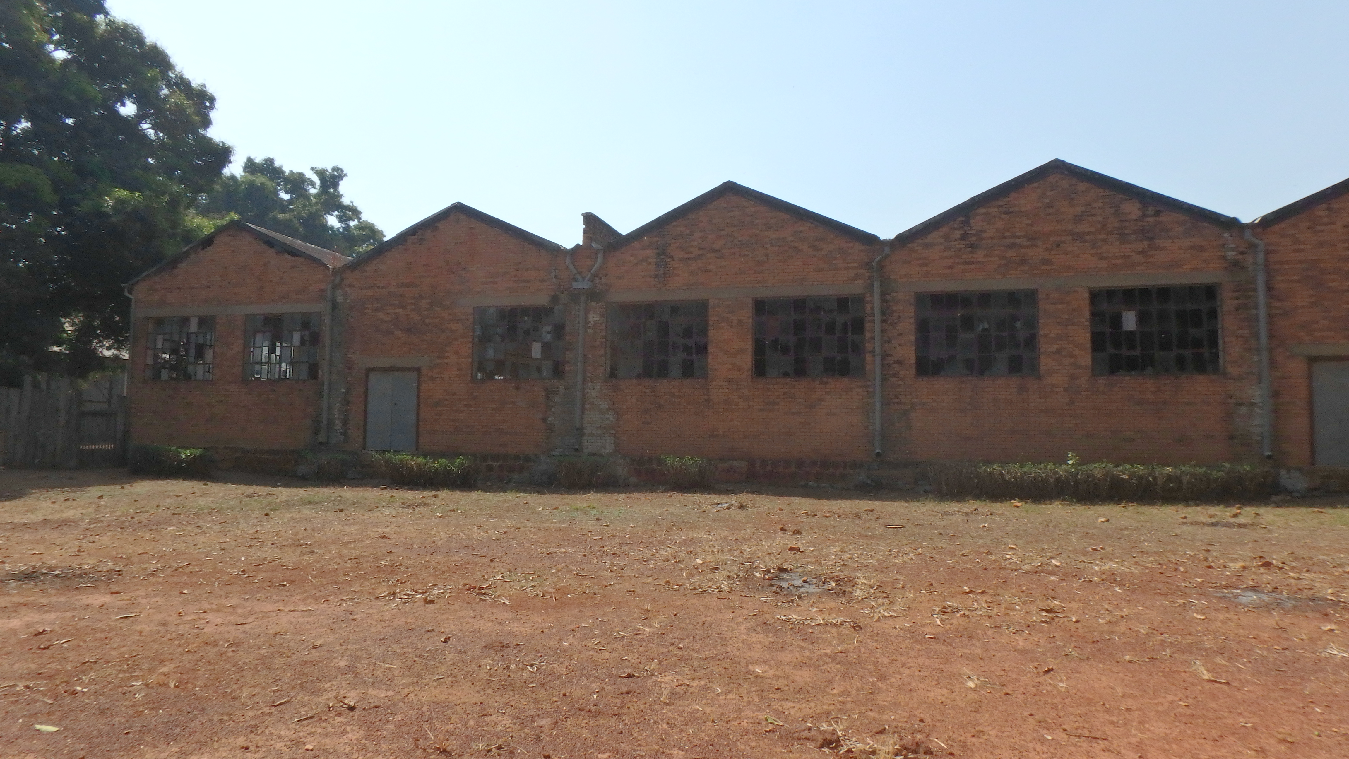 This is a picture of the cotton factory that was home to the first breakout of the Ebola Virus.